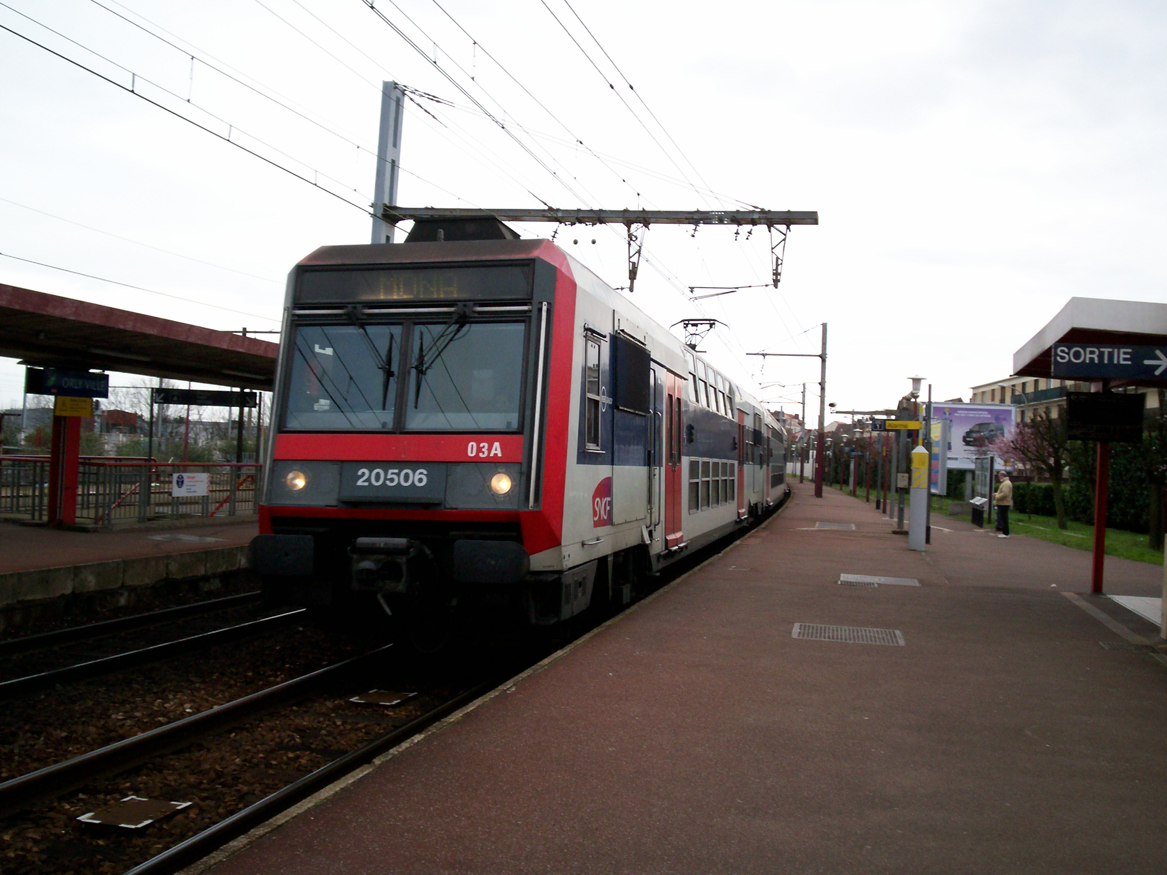 Gare d'Orly-Ville